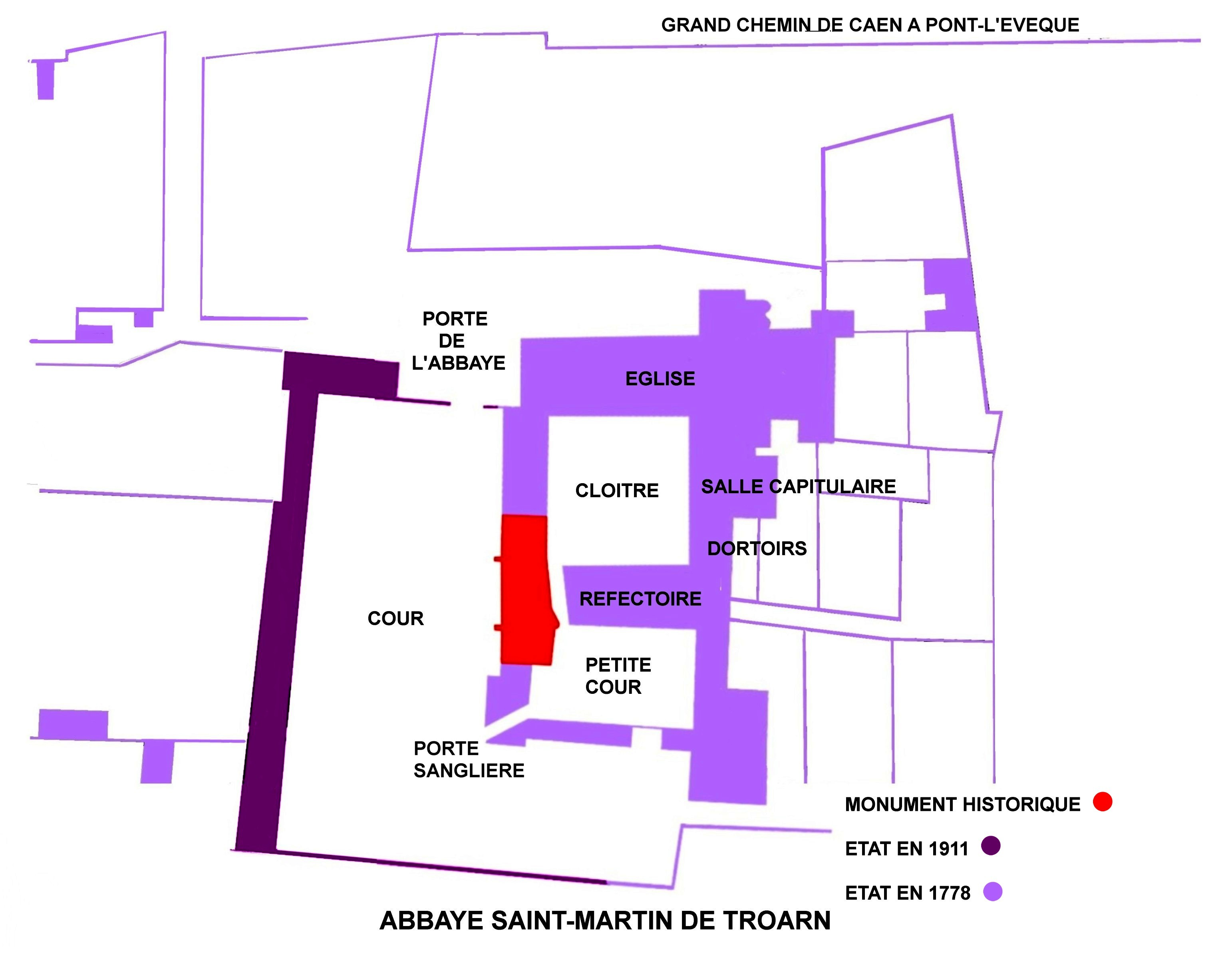 Plan de l'abbaye Saint-Martin-de-Troarn en 1778, 1911 et actuel